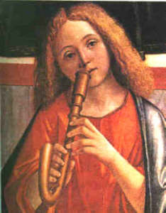 Crumhorn player, detail from Vittore Carpaccio painting, 1510.